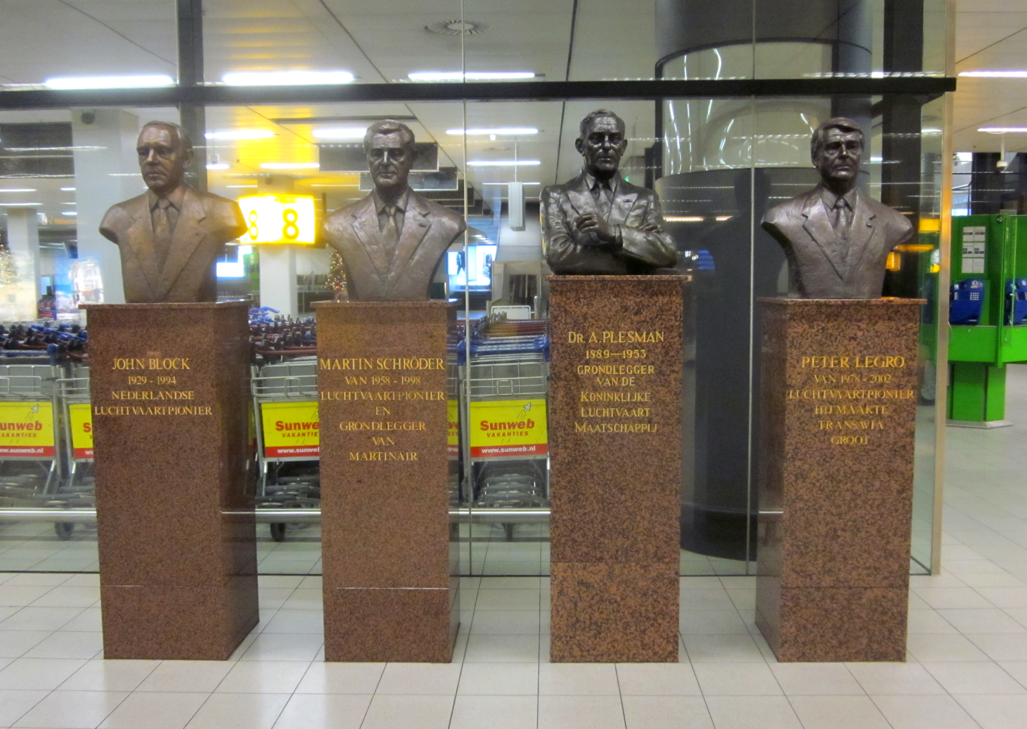 Busts of John Block, Martin Schröder, Albert Plesman and Peter Legro by Kees Verkade (2004), Servaas Maas, Kees Verkade (2004) and again Kees Verkade (2005) at Schiphol